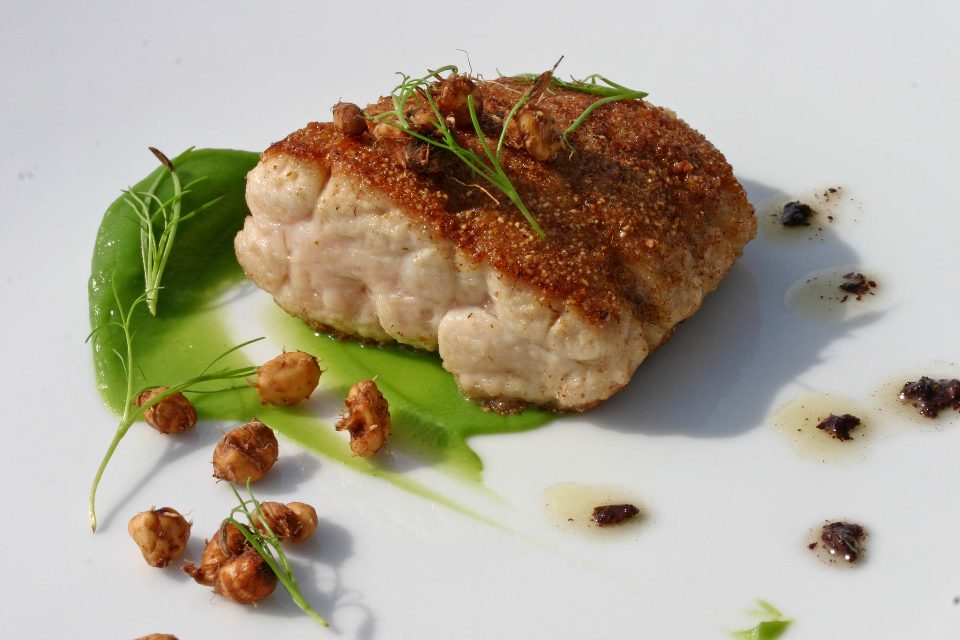 Chufa Nut Crusted Sweetbreads Broccoli, Cumin